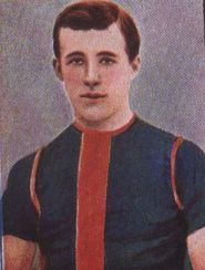 Photo of Frank Langley taken before 1906